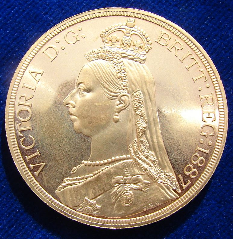 Ex Spink Patina Collection. D. = 39 mm Golden Bronze, plain edge. Victoria, 1837- 1901 Crowned Jubilee Head l. surrounding : "VICTORIA D: G: BRITT: REG: 1887" / Obverse only.